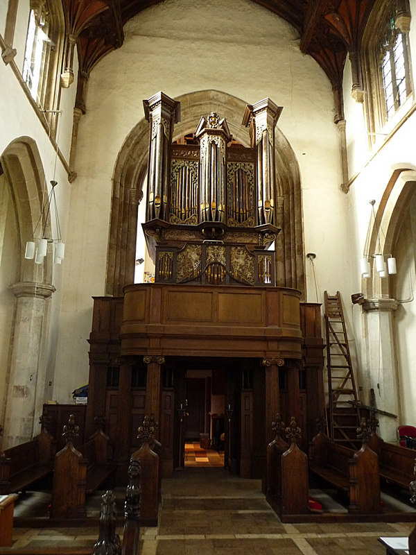 St Michael, Framlingham, organ. One of the most noted features of the church is the world-famous 17th-century Thamar organ. Only eight organs in total survived the English Civil War as Oliver Cromwell apparently had a dislike of their ornate style and ordered them to be destroyed. Of these, there are just three remaining Thamars - the other examples being in Gloucester 924028 and Stanford on Avon 1017204